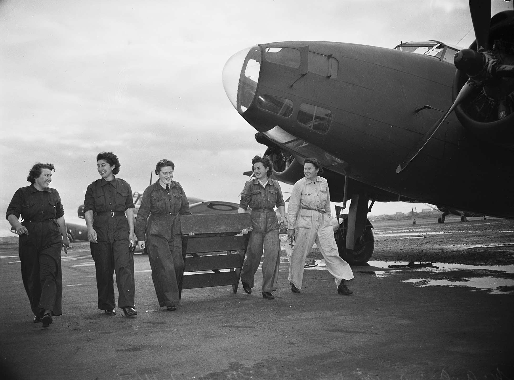 W.A.A.A.F technicians: Jean Gray; Isobel Mack; Joyce Tysoe and Constance Black begin their day's work at Mascot airport, 4 July 1944 photographed by Ivan Ives, State Library of New South Wales ON 388/Box 019/Item 084